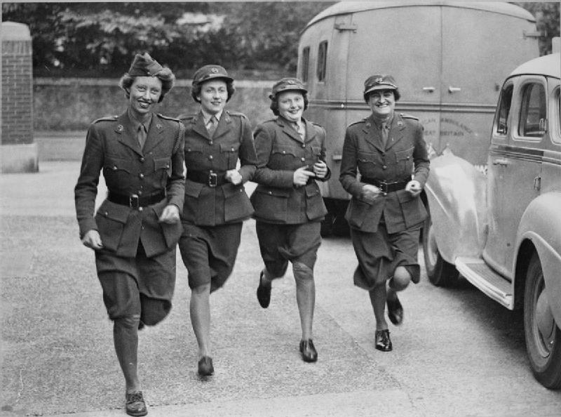 The work of the Anglo-american Ambulance Unit in Britain, 1941 Women of the Anglo-American Ambulance Unit (American Ambulance, Great Britain), run to their vehicles, somewhere in the North East of England. Left to right, they are: Mrs Beaven, Miss Vivian Thomas, Miss Eleanor Hedley and Mrs Dale. Behind them, an ambulance and an ambulance car can be seen.